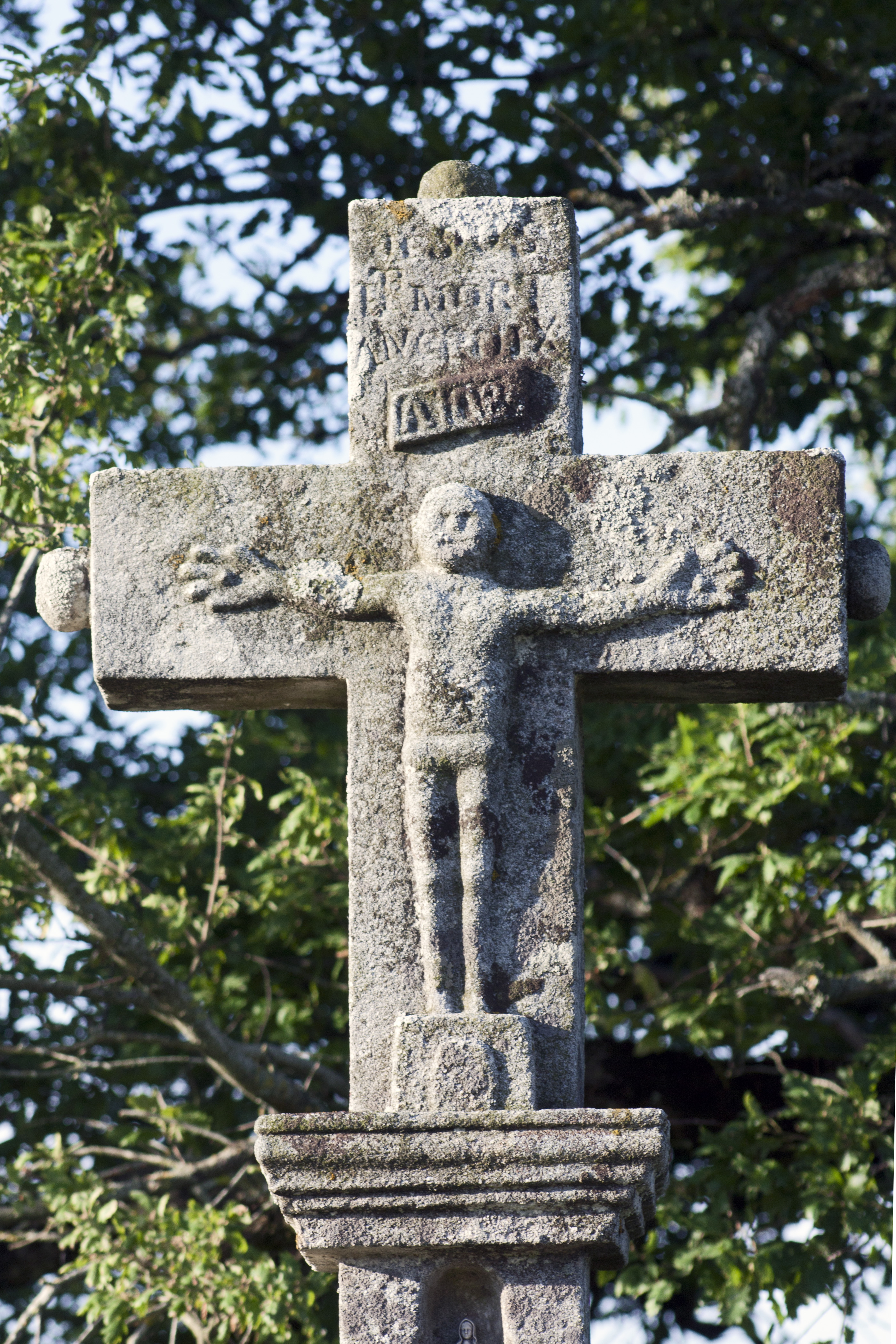 Wayside cross halfway between the Church of Saint Xist and the Church of the Clapier.